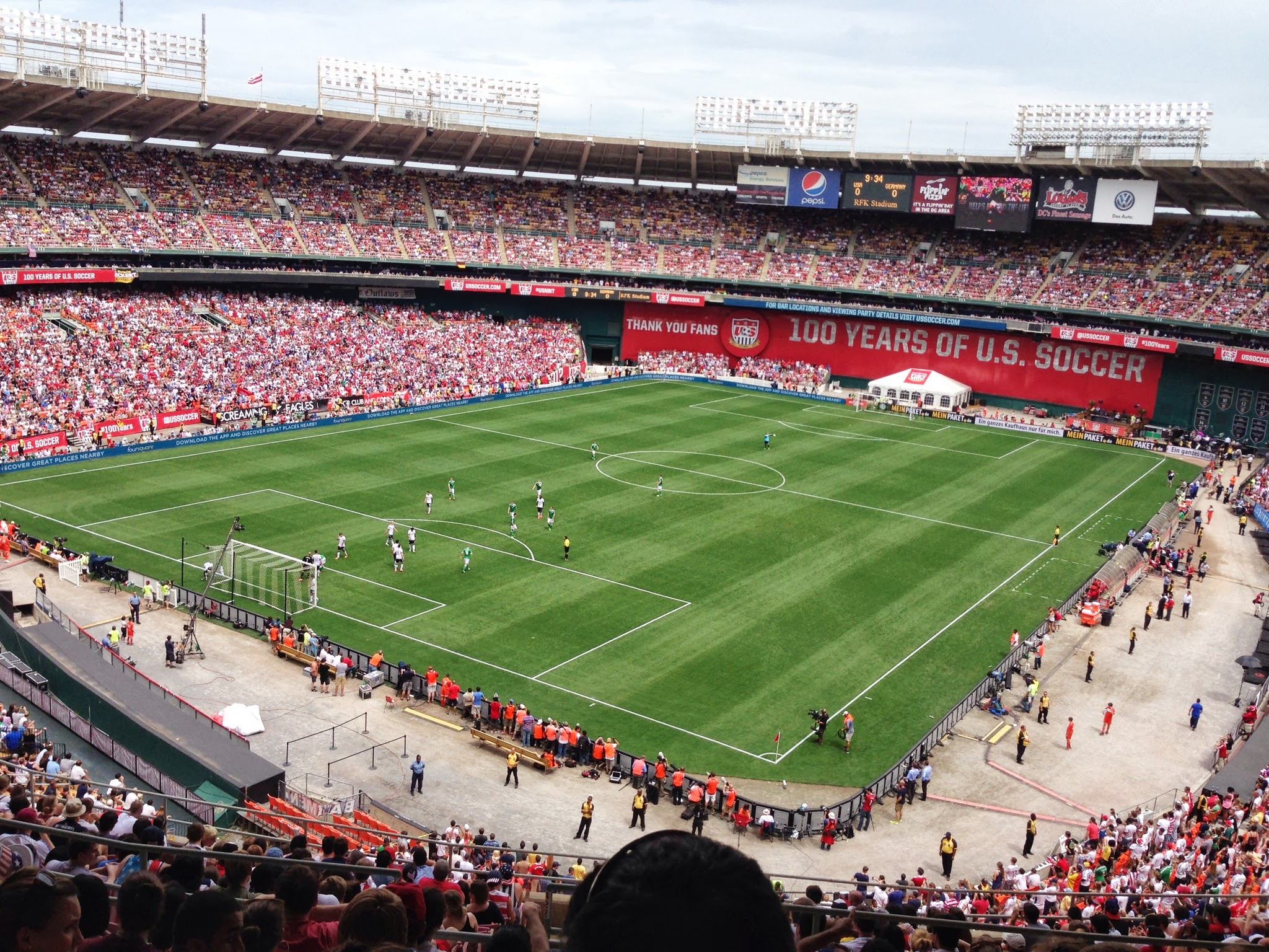 US v Germany at RFK